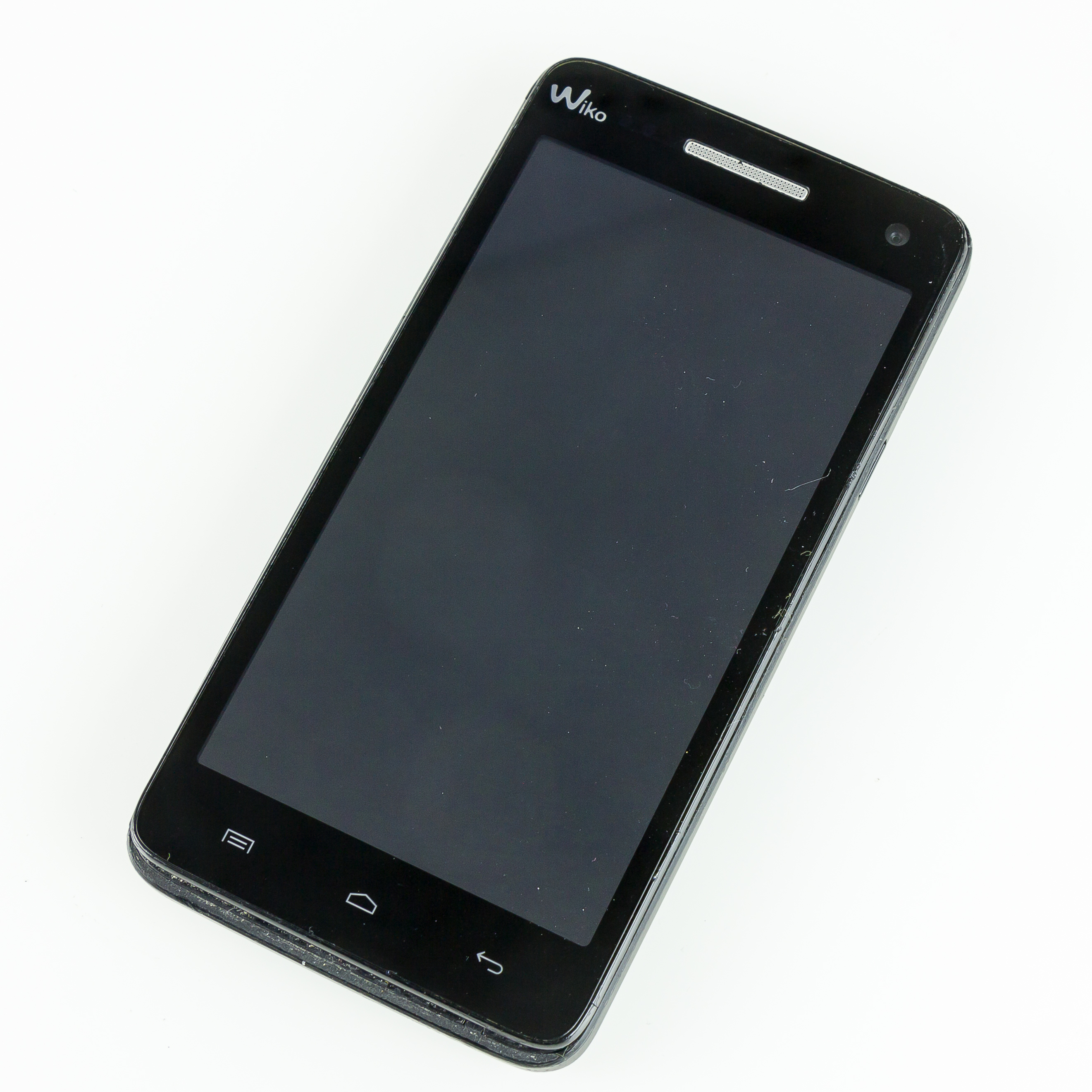 Wiko Rainbow 4G